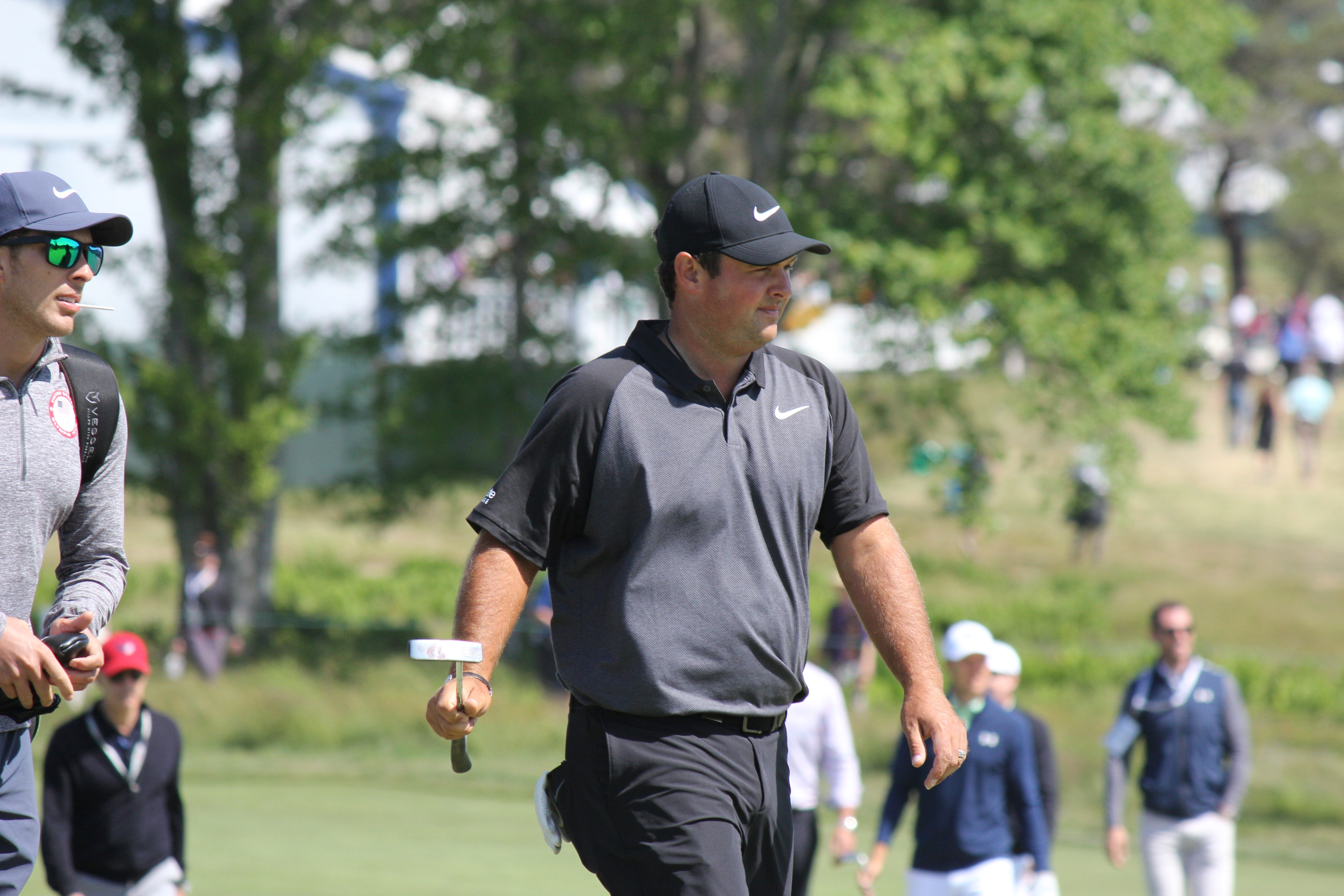 Patrick Reed at the 2018 US Open